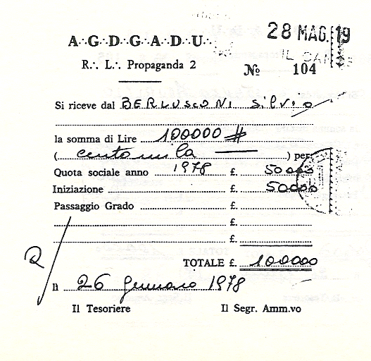 Receipt for membership of Silvio Berlusconi to "Propaganda Due" (P2) masonic lodge. Image from «Relazione della Commissione Parlamentare d'inchiesta sul caso Sindona e sulle responsabilità politiche ed amministrative ad esse eventualmente connesse» (Legge 22 maggio 1980 n° 204).